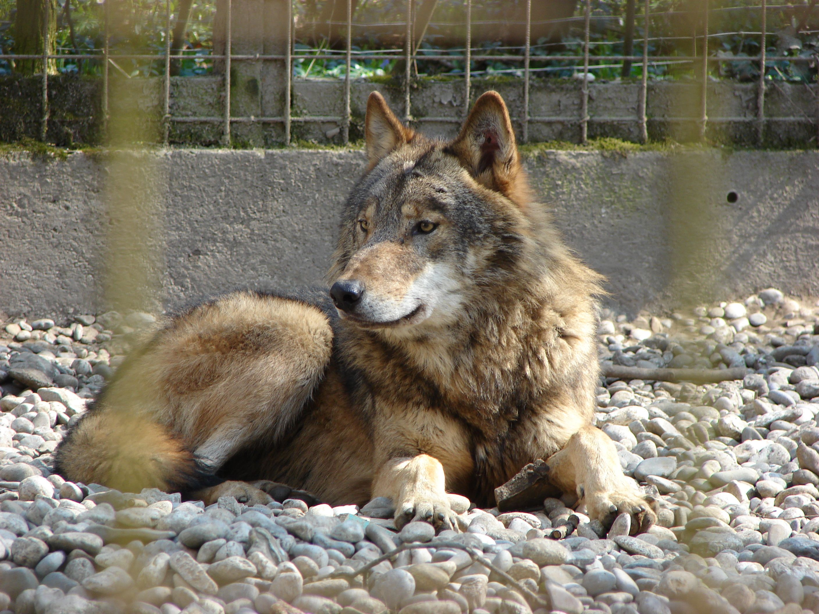 Gray Wolf in the zoo of Stadt Haag, Austria.